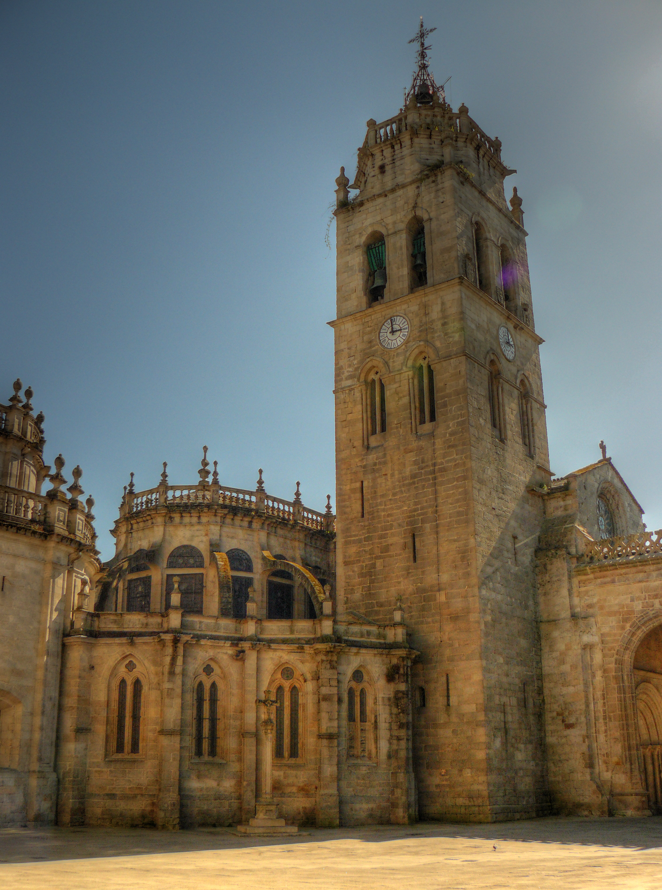 Cathedral of Lugo